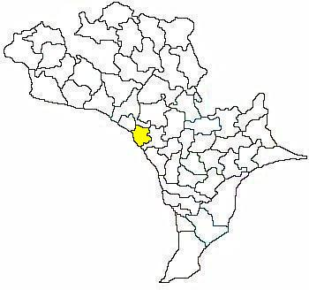 Mandal map of Krishna district showing Penamaluru mandal (in yellow)